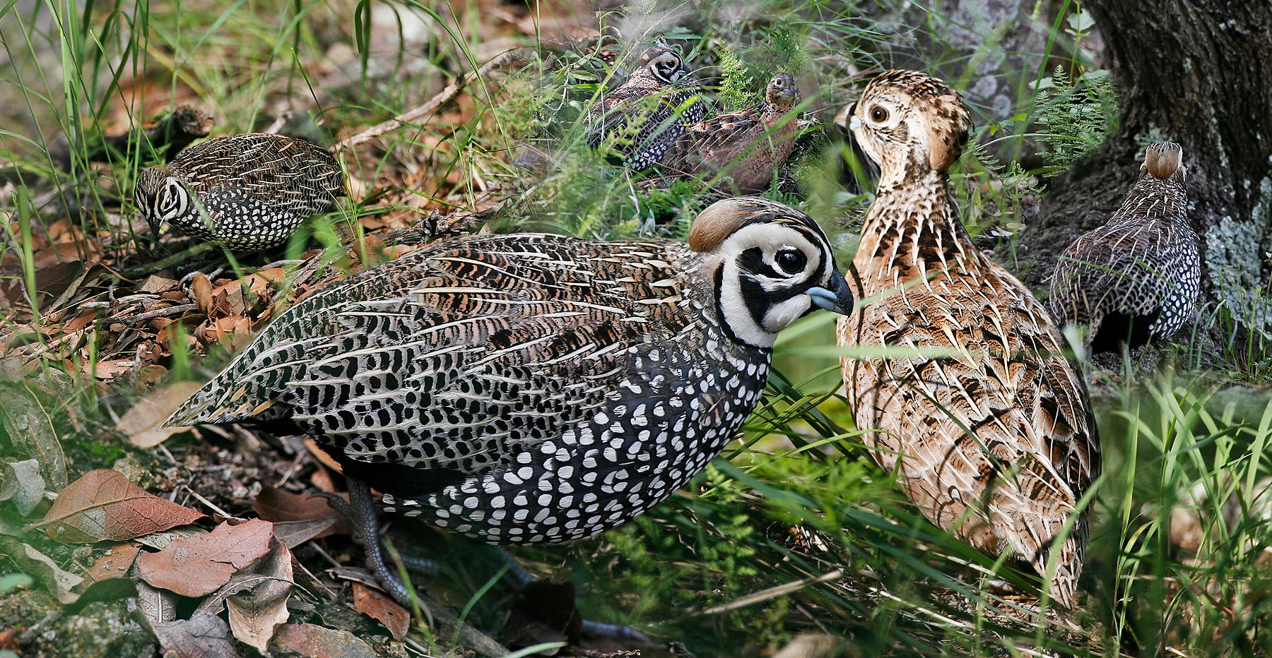 Montezuma Quail From The Crossley ID Guide Eastern Birds